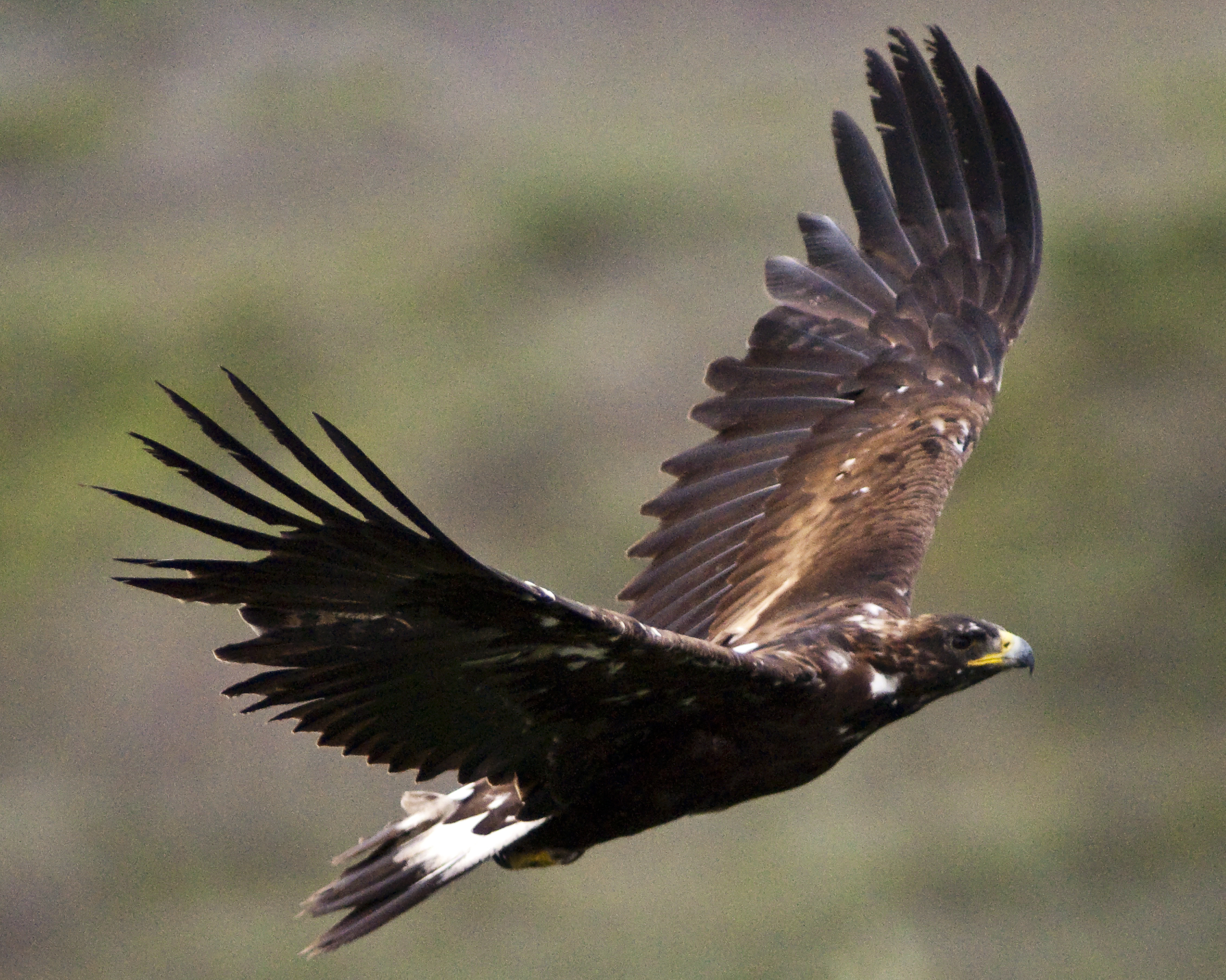 NPS Photo / Kent Miller